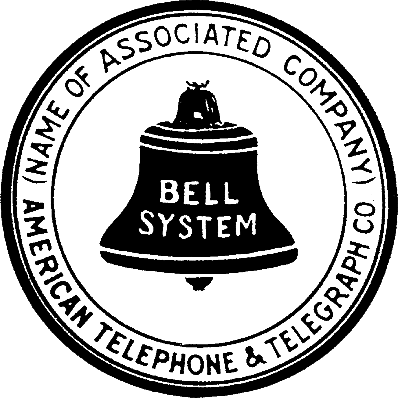 Bell System logo, 1921 Bell System logos These images are intended for the Bell System and possibly associated articles, to illustrate the history of the Bell System. Started with Bell System Memorial- Bell Logo History. Result was seven similar images with free formats: Image:Bell System hires 1889 logo.PNG Image:Bell System hires 1900 logo.PNG Image:Bell System hires 1921 logo.PNG Image:Bell System hires 1939 logo.PNG (now available as Image:Bell System hires 1939 logo.svg) Image:Bell System hires 1964 logo.PNG (now available as Image:Bell System hires 1964 logo.svg) Image:Bell System hires 1969 logo.PNG (now available as Image:Bell System hires 1969 logo.svg) Image:Bell System hires 1969 logo blue.PNG (now available as Image:Bell System hires 1969 logo blue.svg) Simalar Vector version Available: File:Bell System AT and T .svg